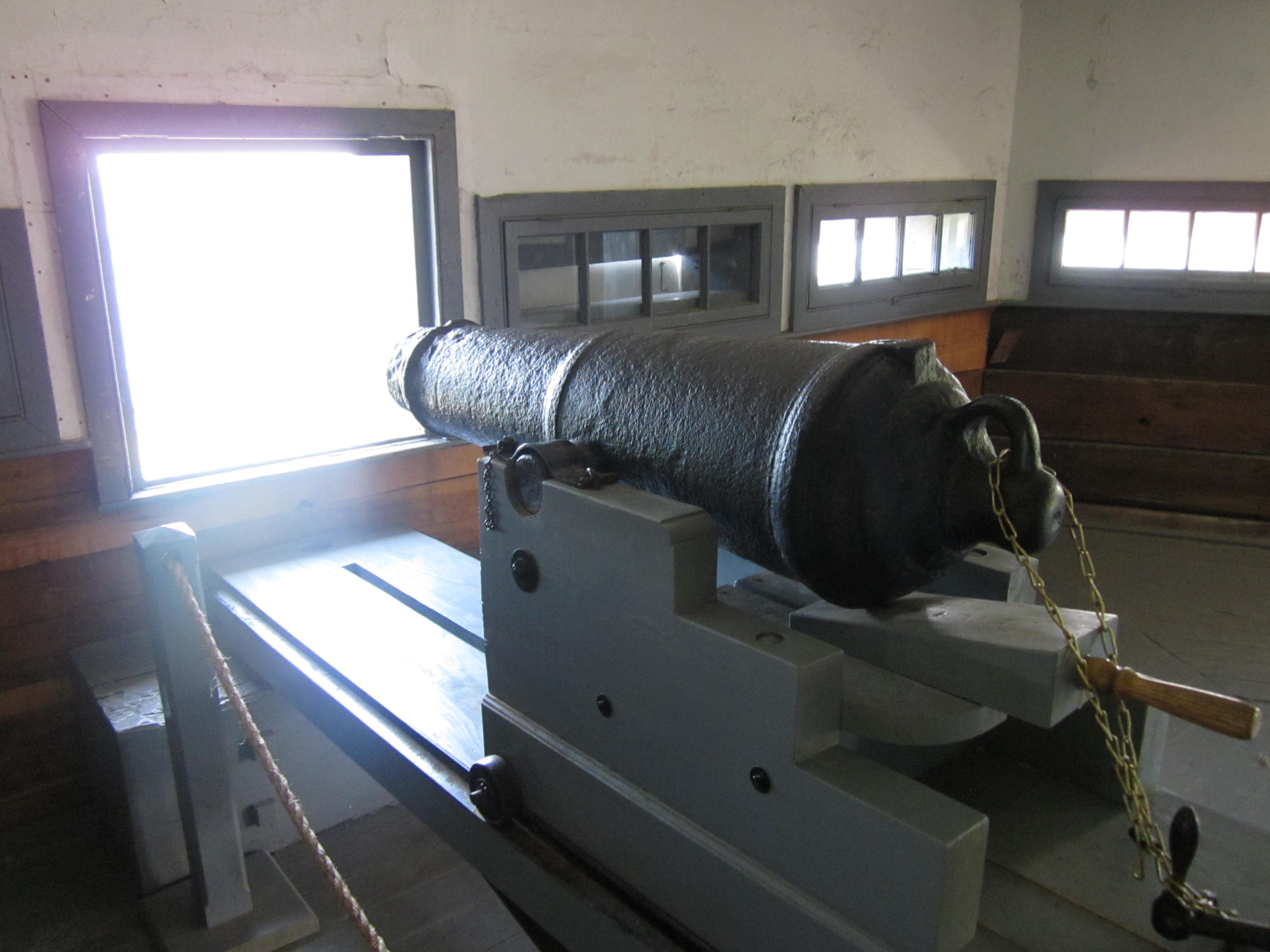 Fort McClary State Historic Site - Kittery Point, Maine